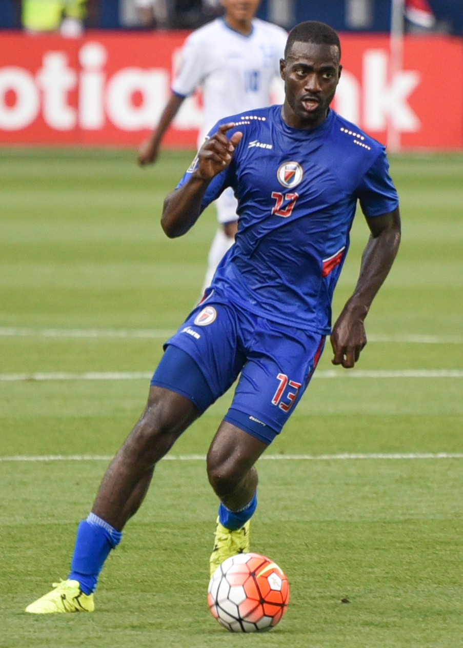 Kevin Lafrance playing for Haiti's Men's National Team against Honduras in the Gold Cup, Sporting Park, Kansas City, Kansas, 13JUL2015